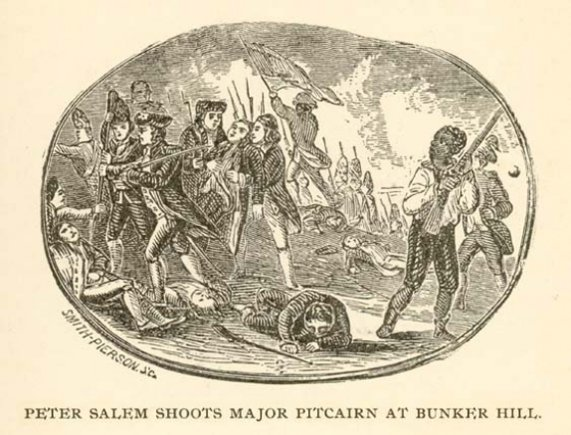 Peter Salem Shoots Major Pitcairn at Bunker Hill